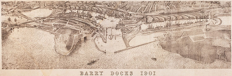 Engraving of Barry Docks, Wales